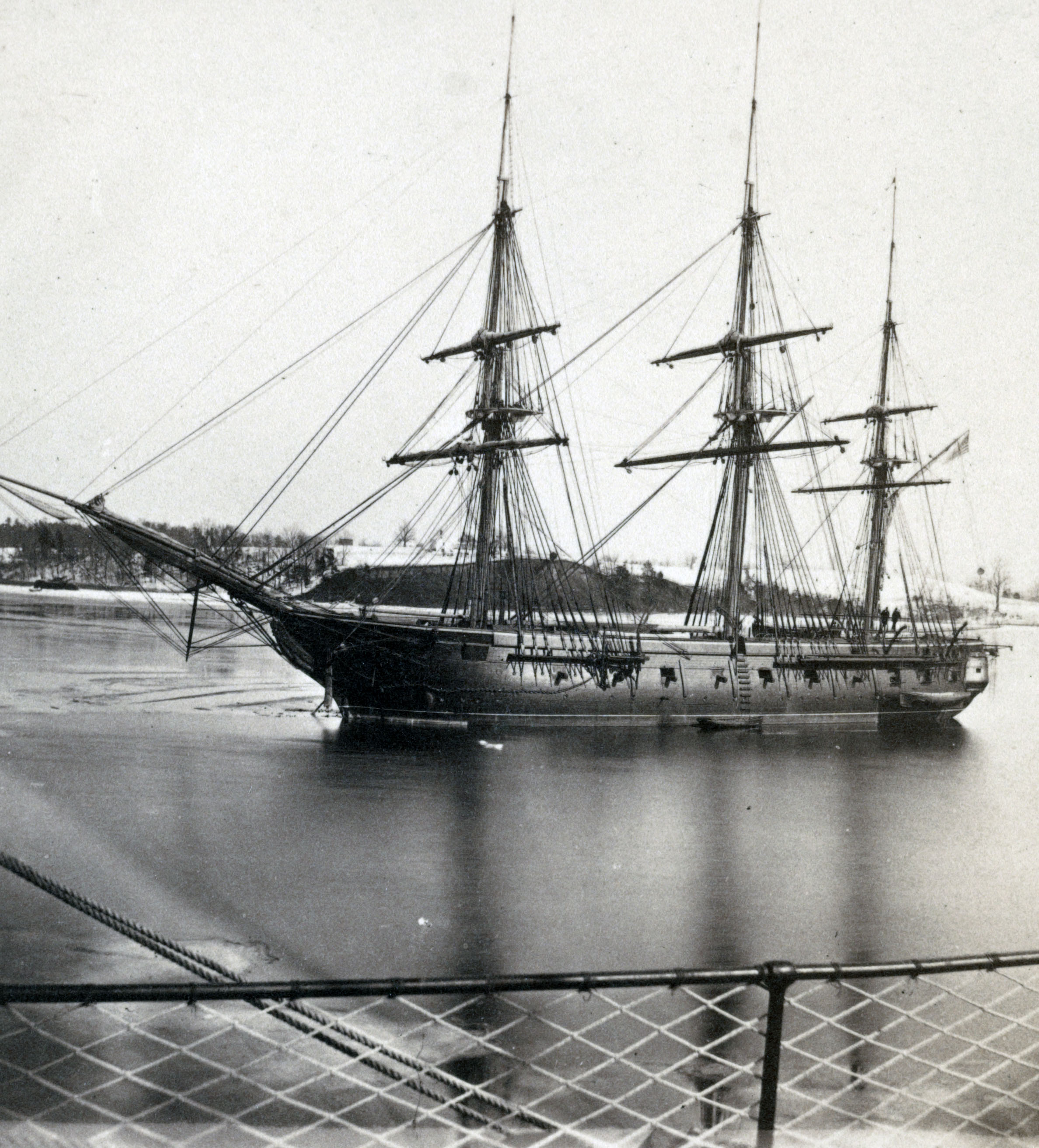 LC-DIG-PPMSCA-33814: US Navy frigate, USS Macedonian, port view, during the Civil War. Courtesy of the Library of Congress.